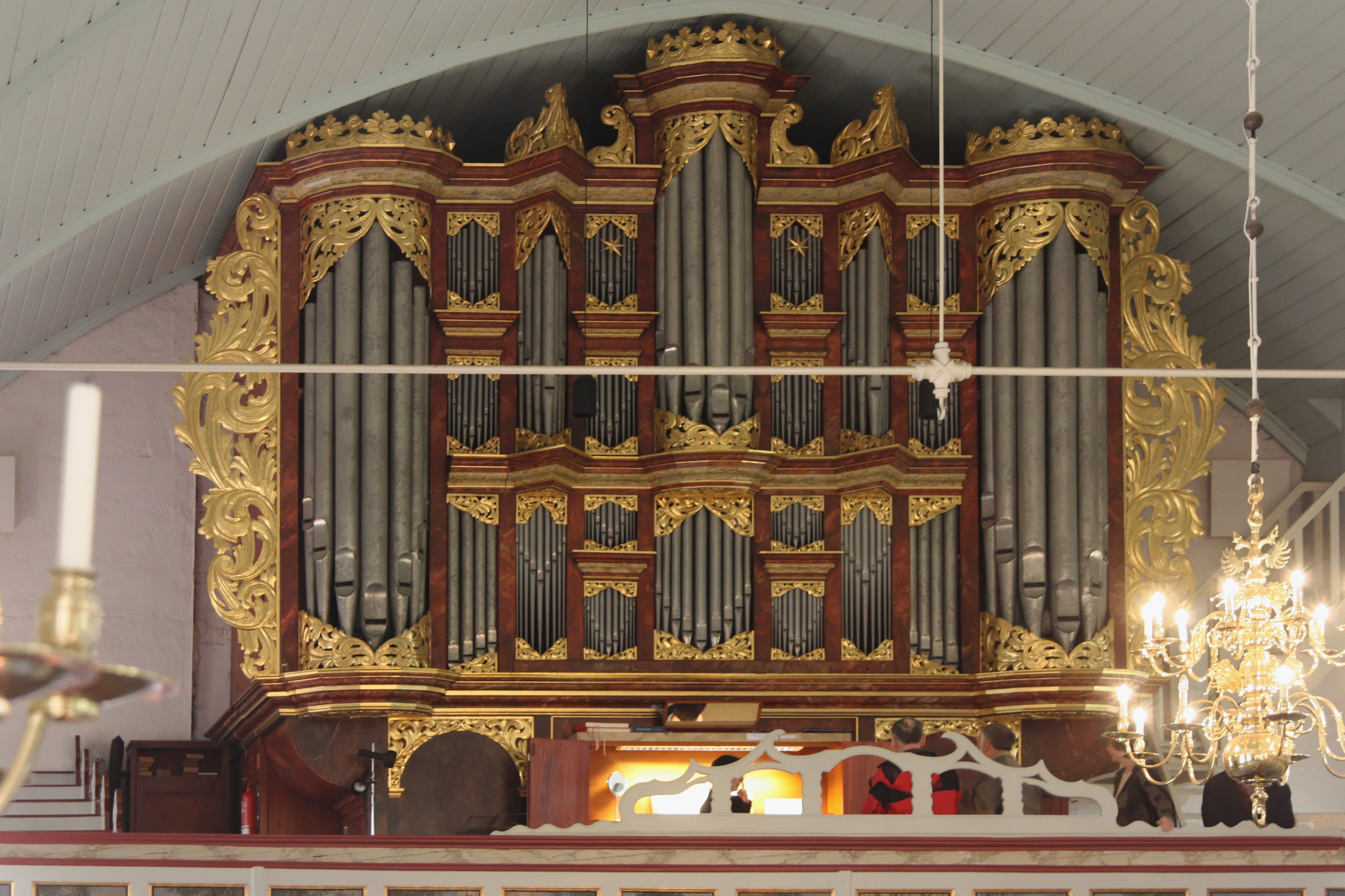 Pipe organ, first construction by Arp Schnitger, church St.Pankratius, Hamburg-Ochsenwerder